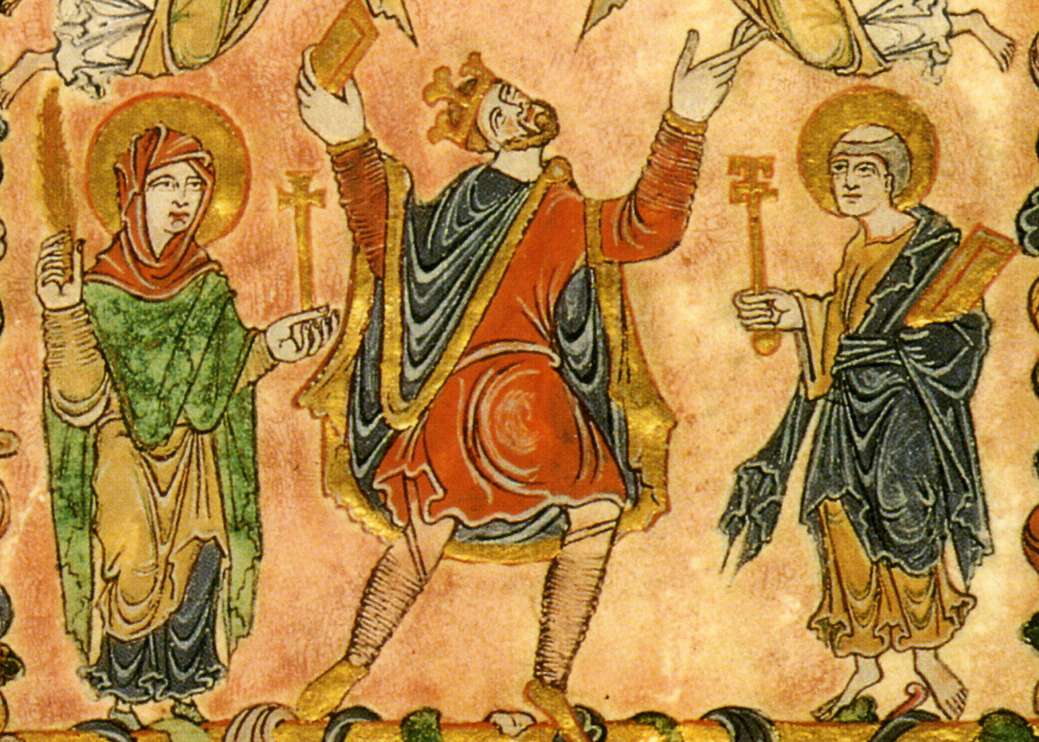 Detail of miniature from the New Minster Charter, 966, showing King Edgar flanked by the Virgin Mary and St Peter, the patron saints of the New Minster